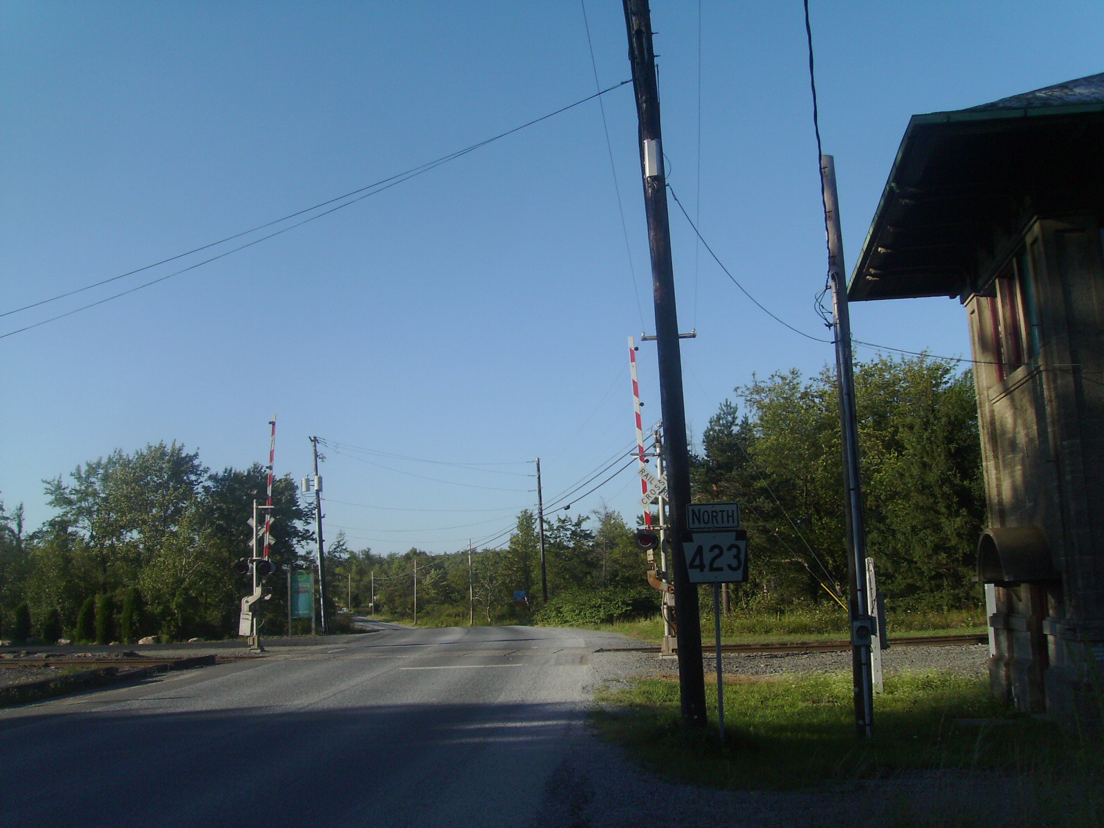 Pennsylvania Route 423 eastbound at the Delaware, Lackawanna and Western Railroad tracks in Tobyhanna, Pennsylvania. Tobyhanna Tower is visible to the south (right of photo).